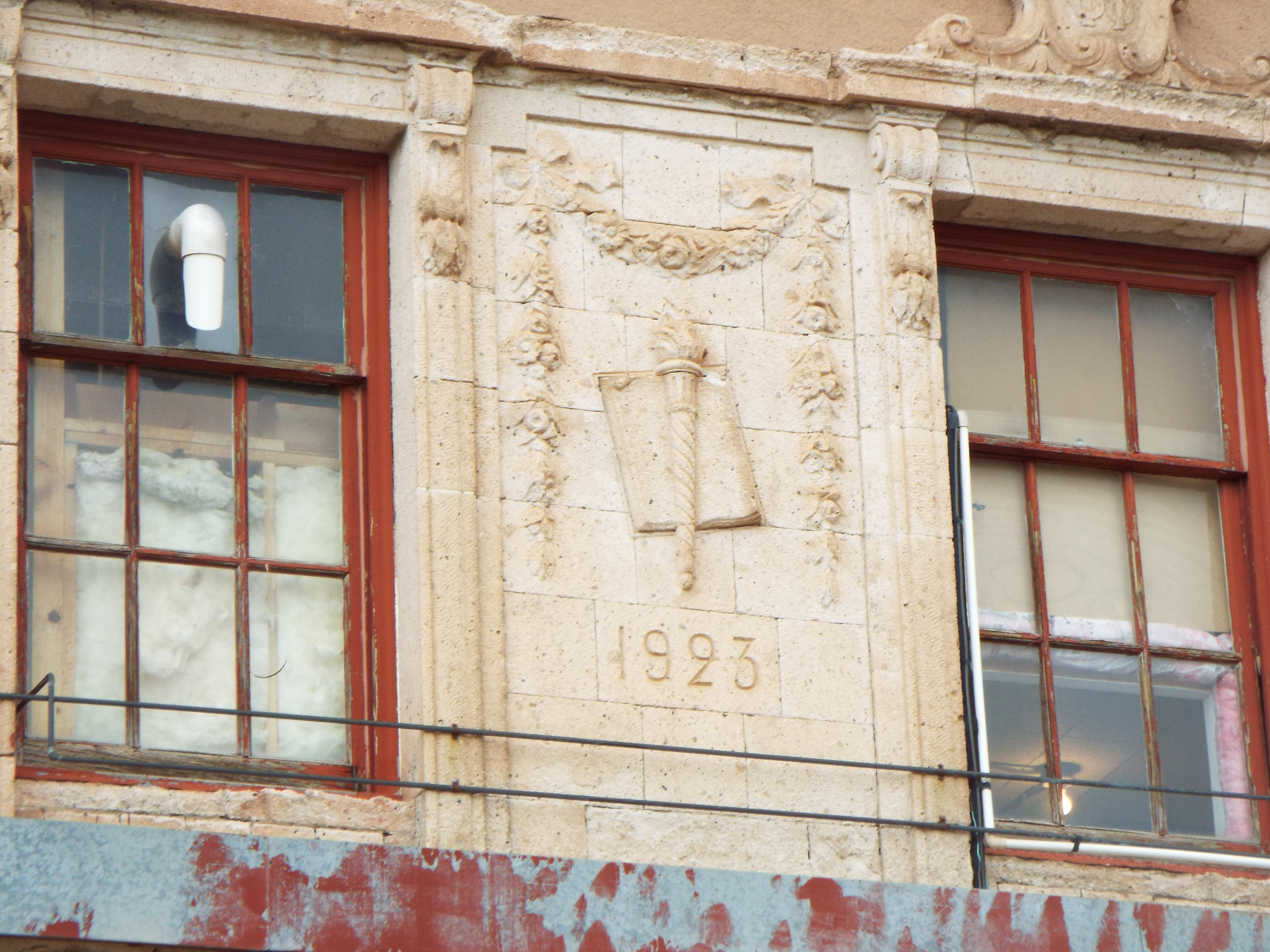 Old Jerome High School built in 1923 and located at 885 Hampshire Ave. in Jerome, Arizona